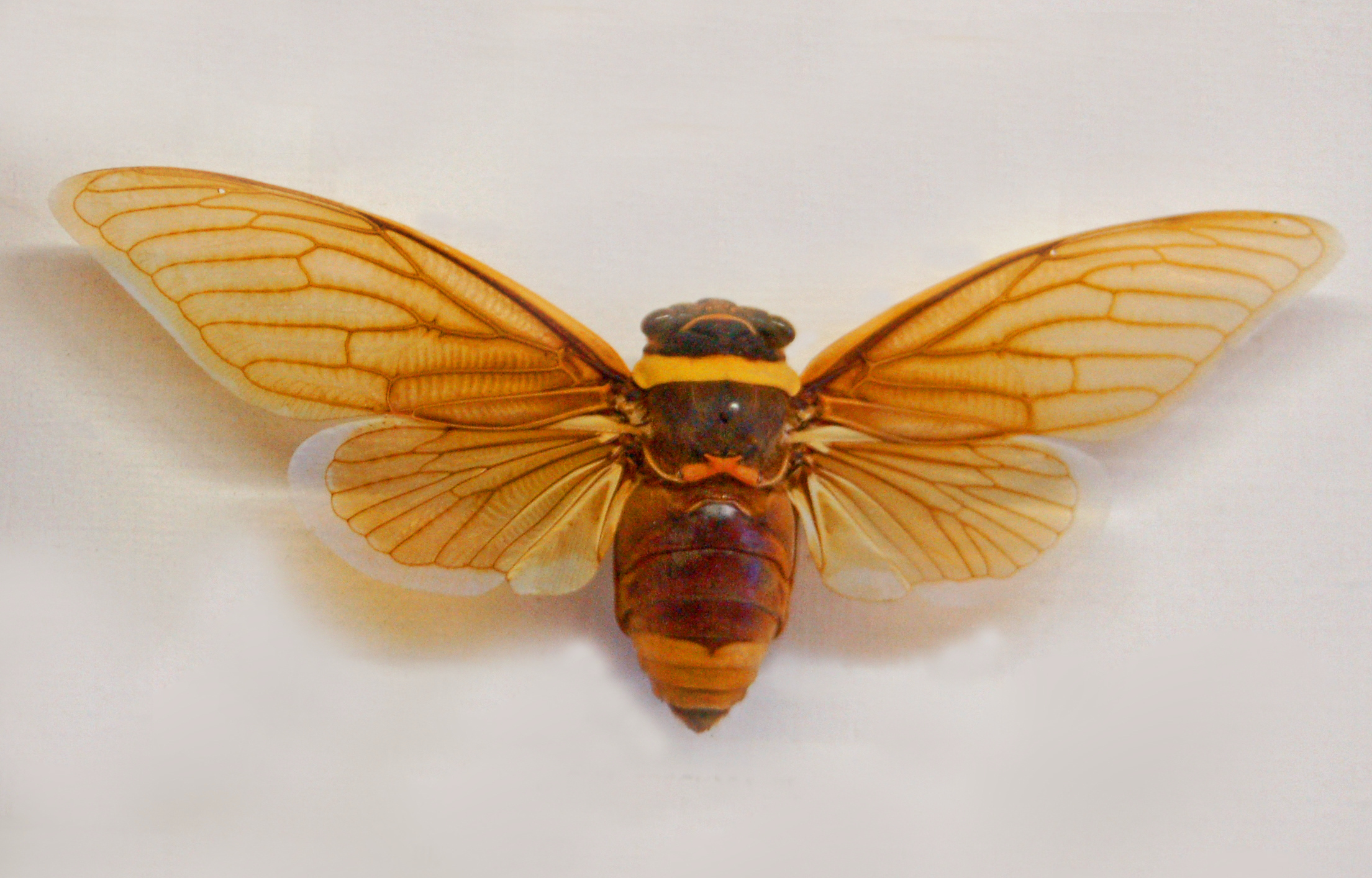 Tacua speciosa, at National Museum (Prague)